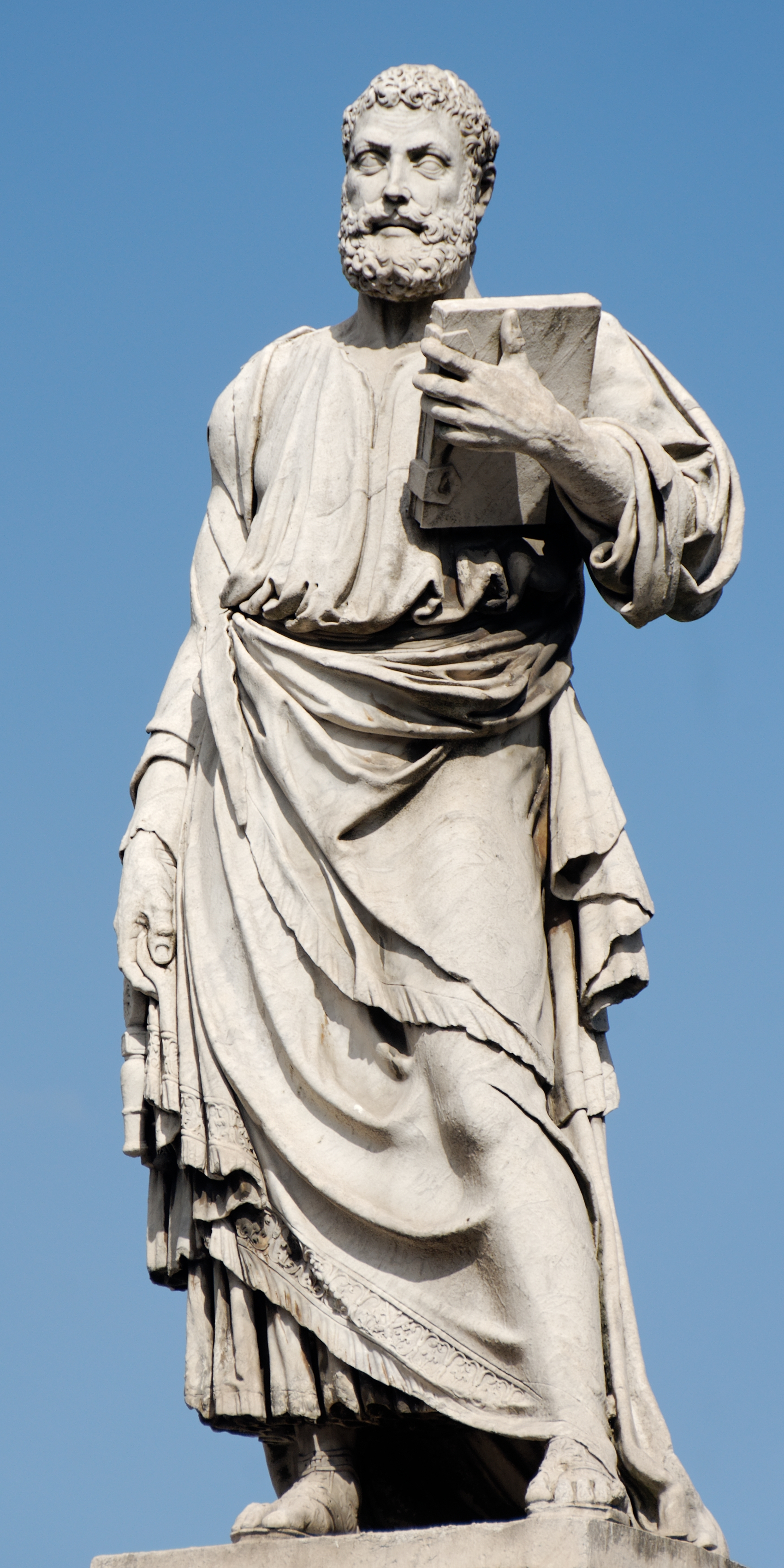 St. Peter by Lorenzetto, with the inscription "Hinc humilibus venia" ("here forgiveness to the humble").